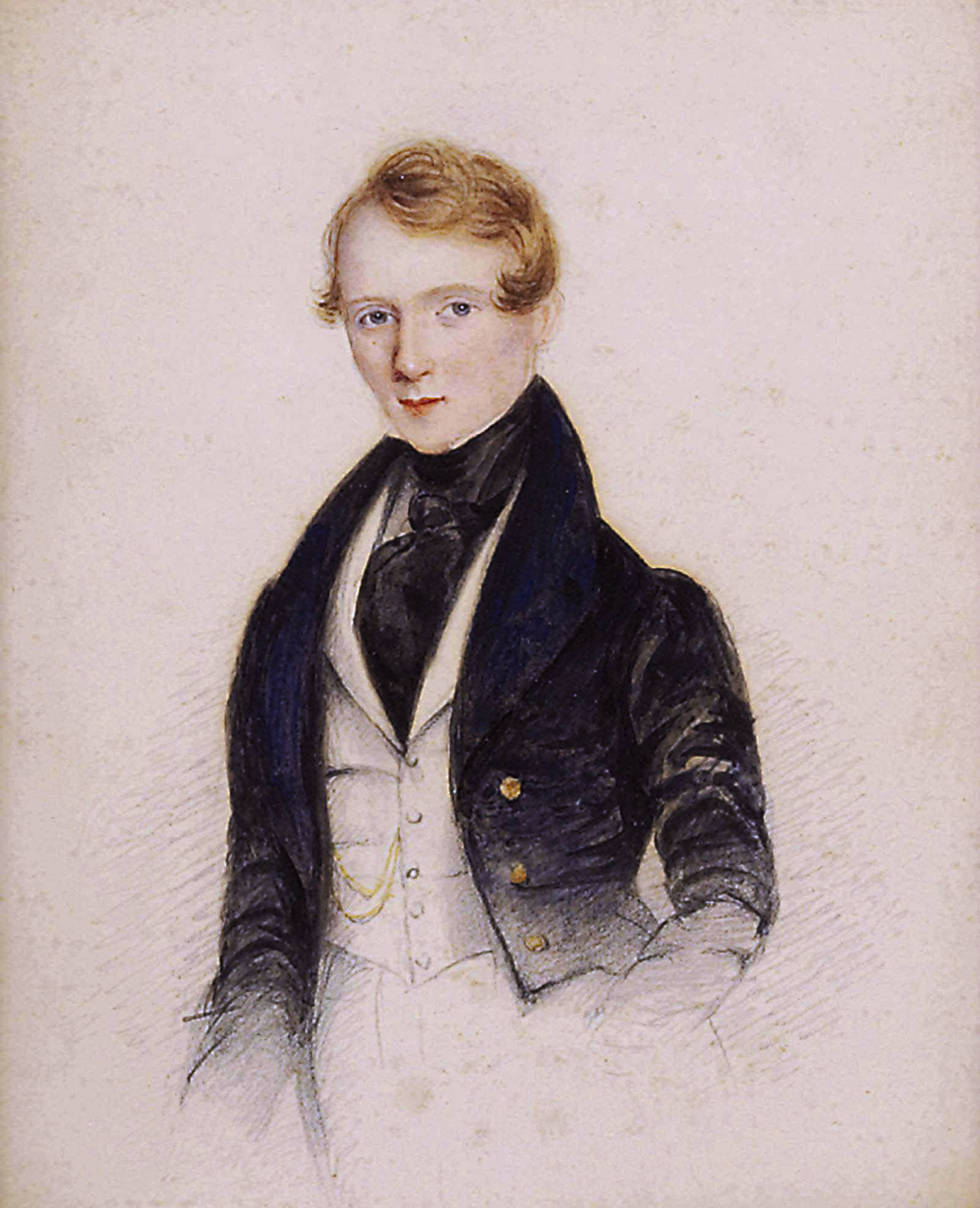 Richard Somerset Esq., later 2nd Baron Raglan (1817-1884) pencil and watercolour 14.6 x 12.1 cm